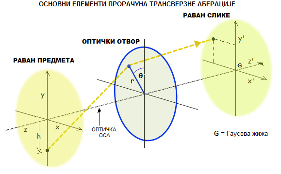 ЕЛЕМЕНТИ ПРОРАЧУНА ТРАНСВЕРЗНЕ АБЕРАЦИЈЕ